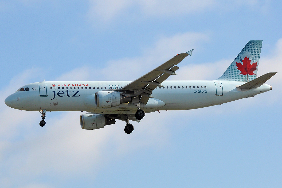 Air Canada Jetz Airbus A320 (registration C-GPWG) landing in Vancouver Intl Airport